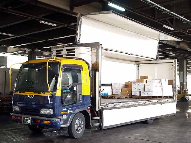 Isuzu Forward-wing truck (Japan)